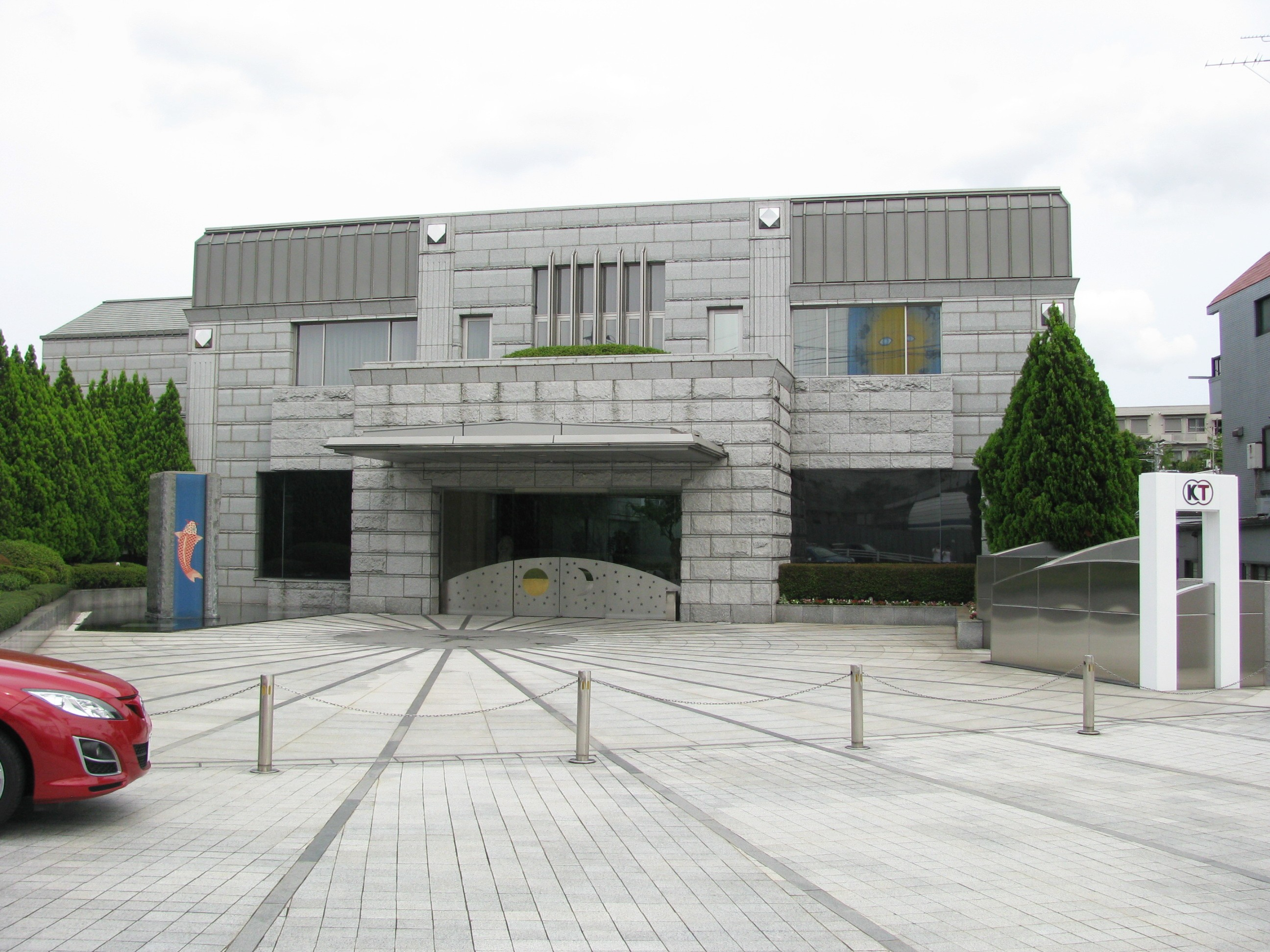 Tecmo Koei headquarters. This place is Minowachō in Kōhoku-ku, Yokohama, Kanagawa Prefecture, Japan.